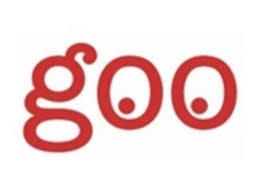 The logo of the Goo search engine in 2020